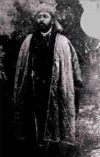 Ayub Khan, Commander of Afganistan (b.1857-d.1914)